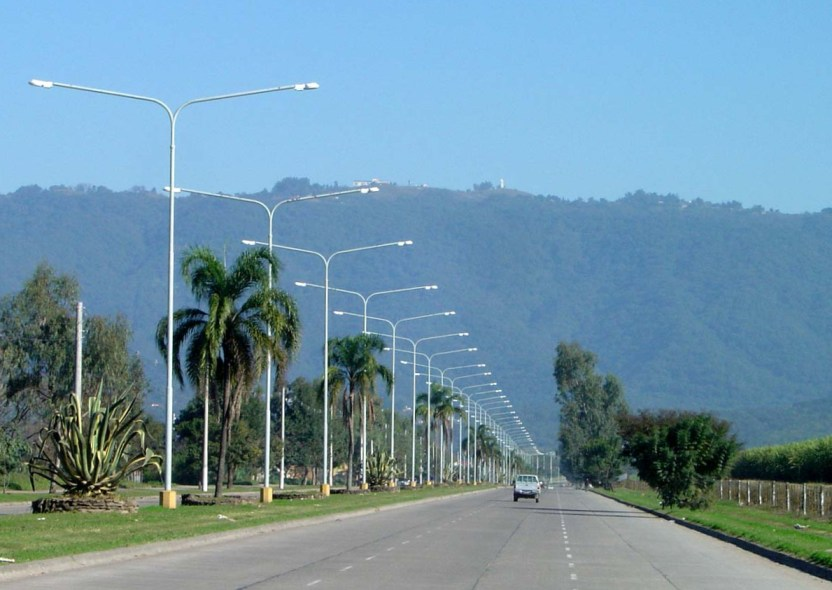 Image: President Peron Ave. and the San Javier Hill, Yerba Buena, Tucumán, Argentina Author: jlazarte